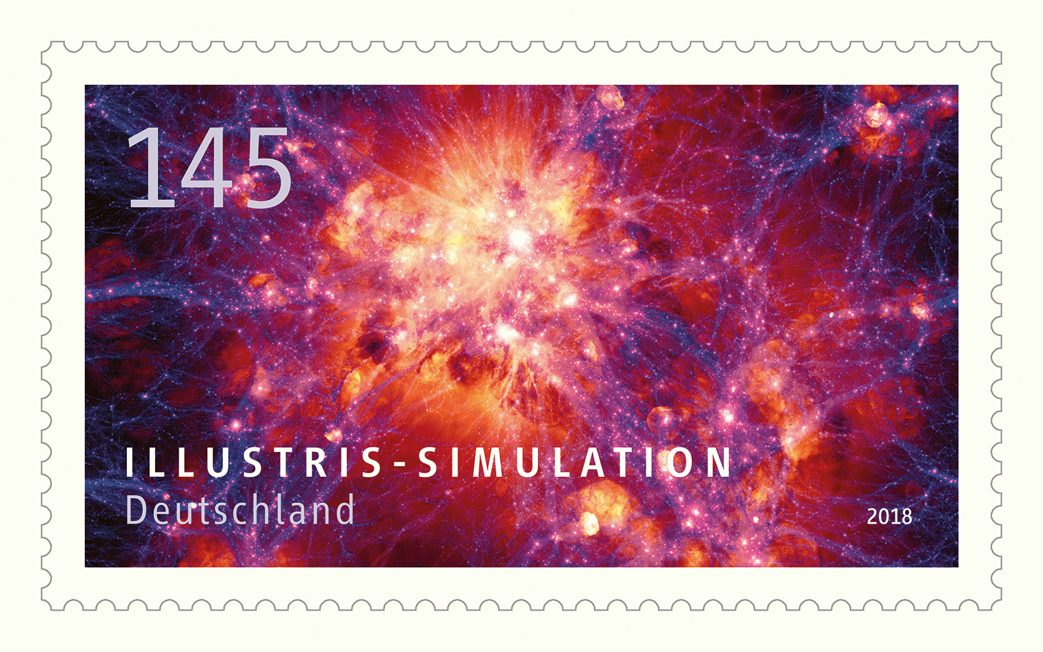 Deutsche Post Stampe in Honor of Illustris Simulation